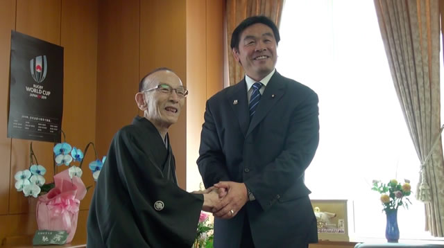 Utamaru Katsura, President of the Rakugo Art Association, met Hiroshi Hase, Minister of Education, Culture, Sports, Science and Technology, at the Central Government Building No.7 in Chiyoda Ward, Tōkyō Metropolis on May 31, 2016.